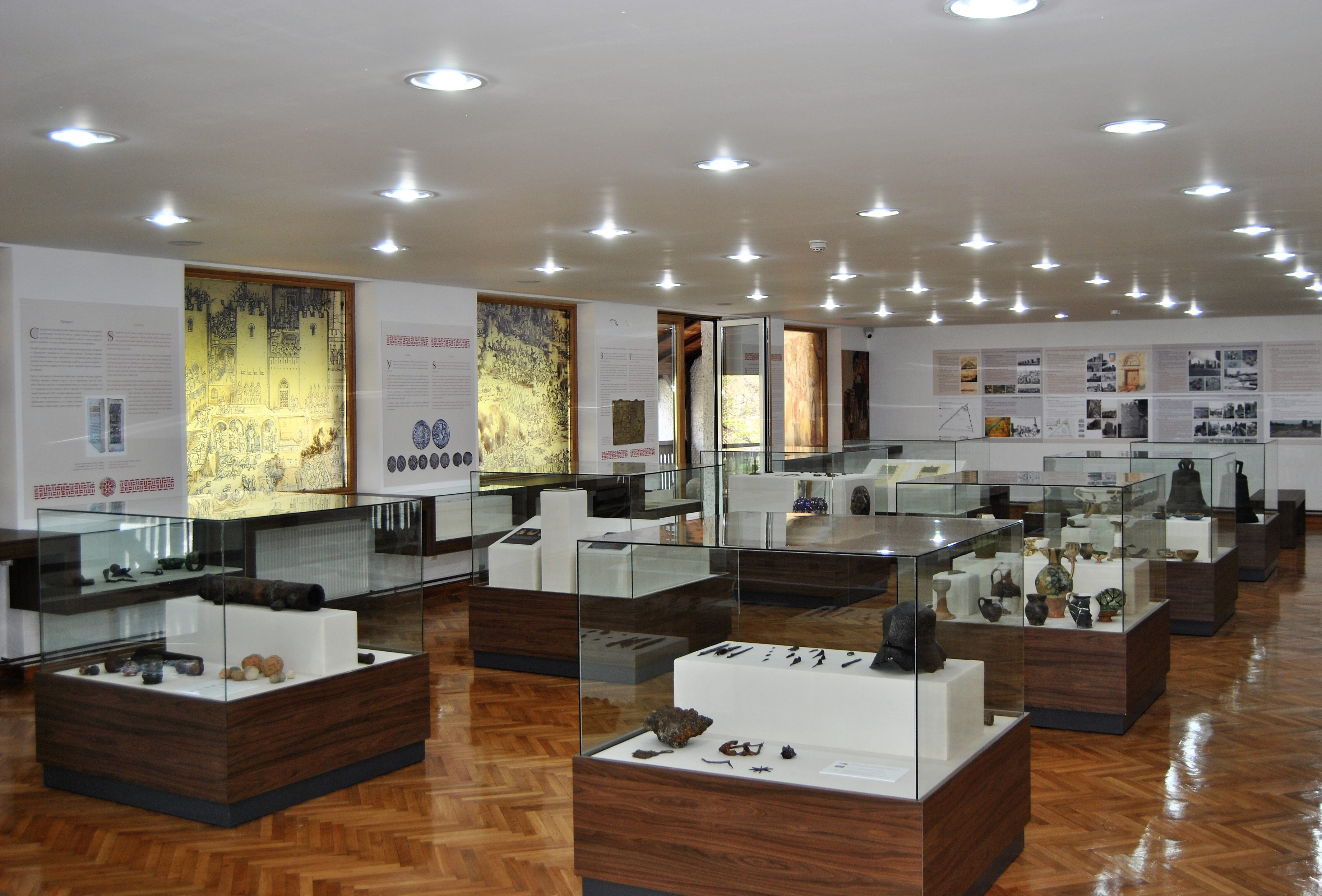 The new exhibition about the Smederevo fortress in the Museum in Smederevo, opened in 2018. Srpski (latinica): Nova izložba o Smederevskoj tvrđavi u Muzeju u Smederevu, otvorena 2018. godine.